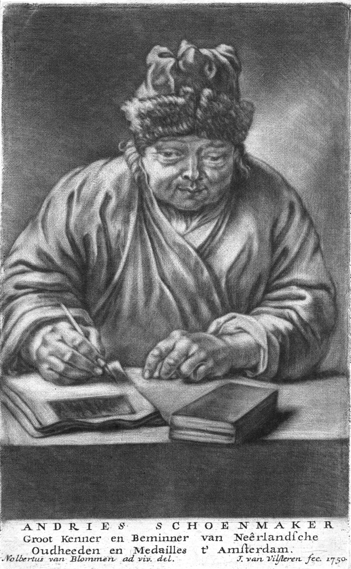 Andries Schoemaker (1660-1735), posthumous portrait